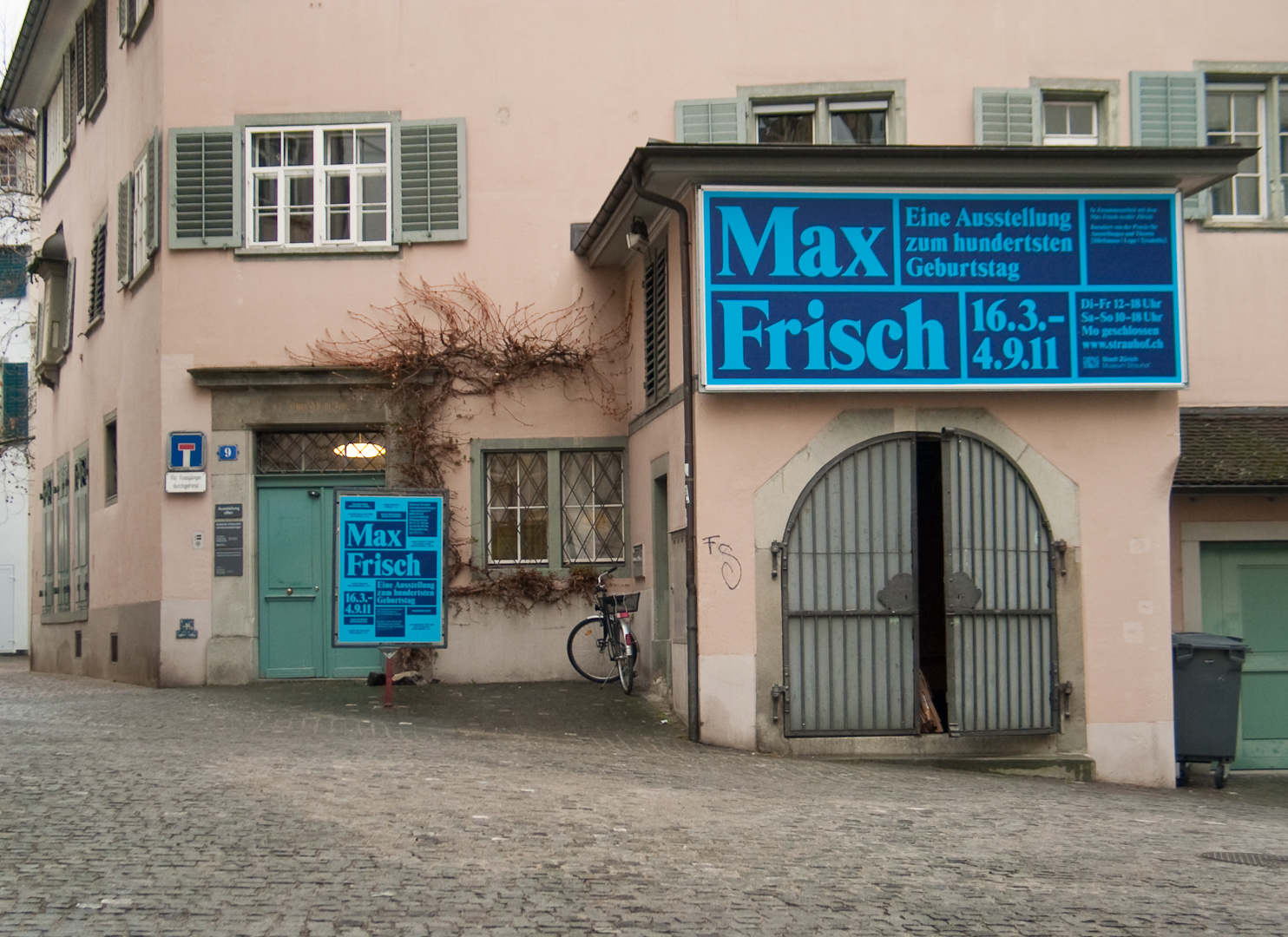 Museum Strauhof in Zürich, Switzerland.